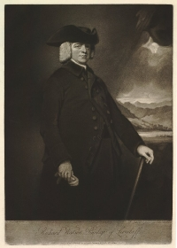 Richard Watson (1737-1816)